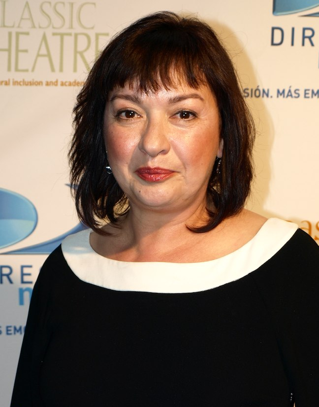 Elizabeth Peña at the 2009 East Classic Theater fundraiser